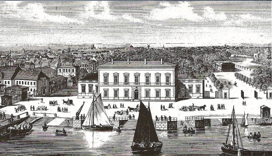 Havnevæsenets Bygning ((the building of the Port Authority) at Nordre Toldbod in Copenhagen, Denmark. Built in 1868 and depicted before it was extended with an extra floor.